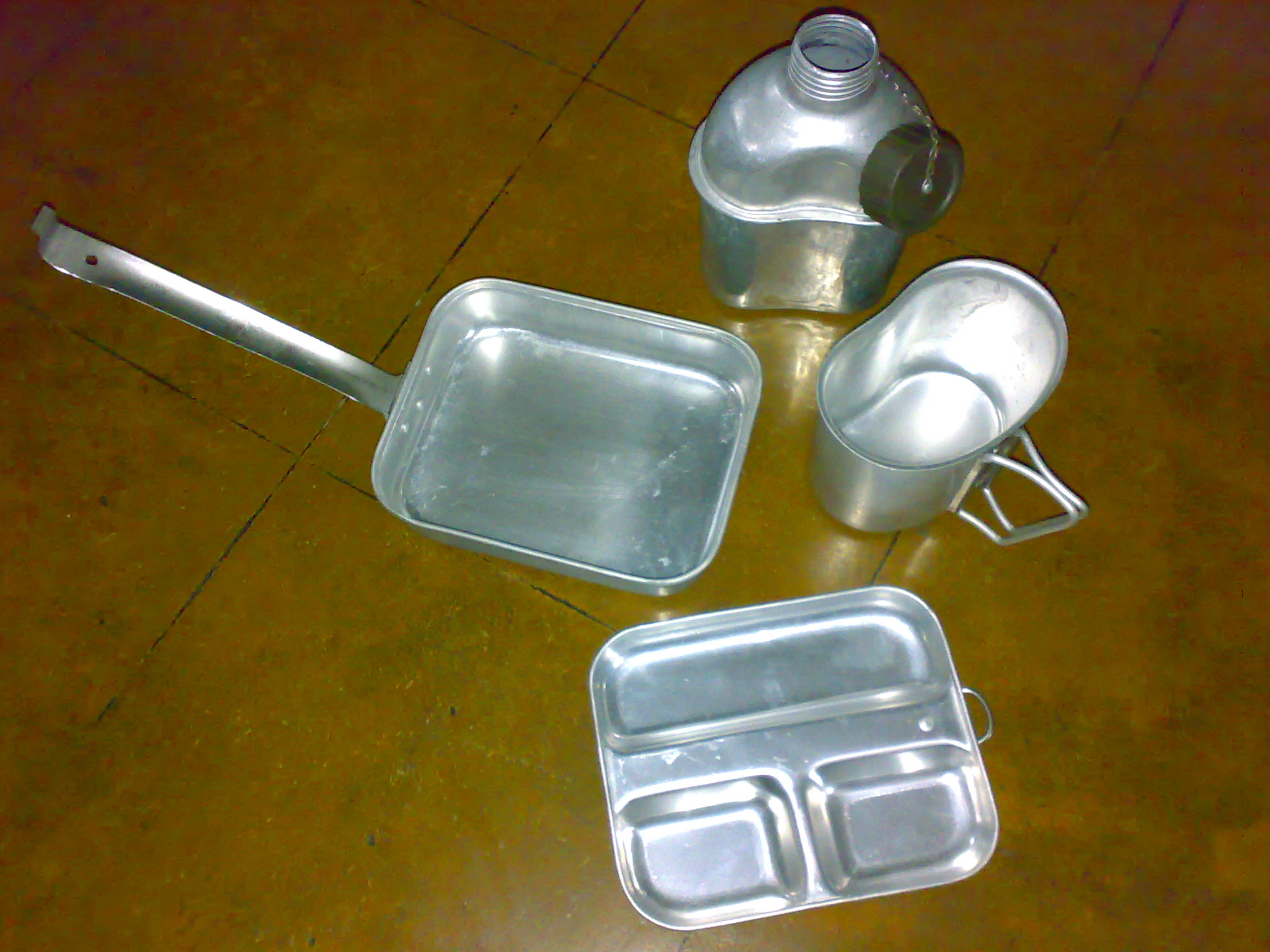 Open AFP mess kit. Kit contains skillet, ration plate, canteen and cup.